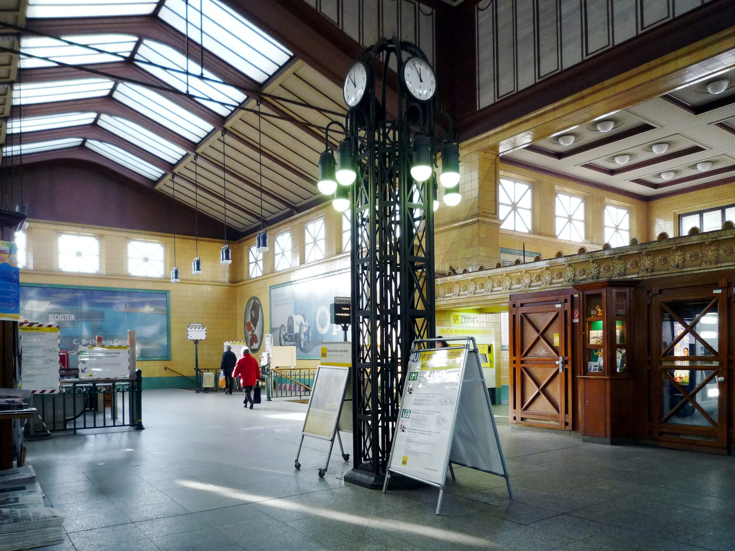 Berlin, subway station "Wittenbergplatz".The hall.